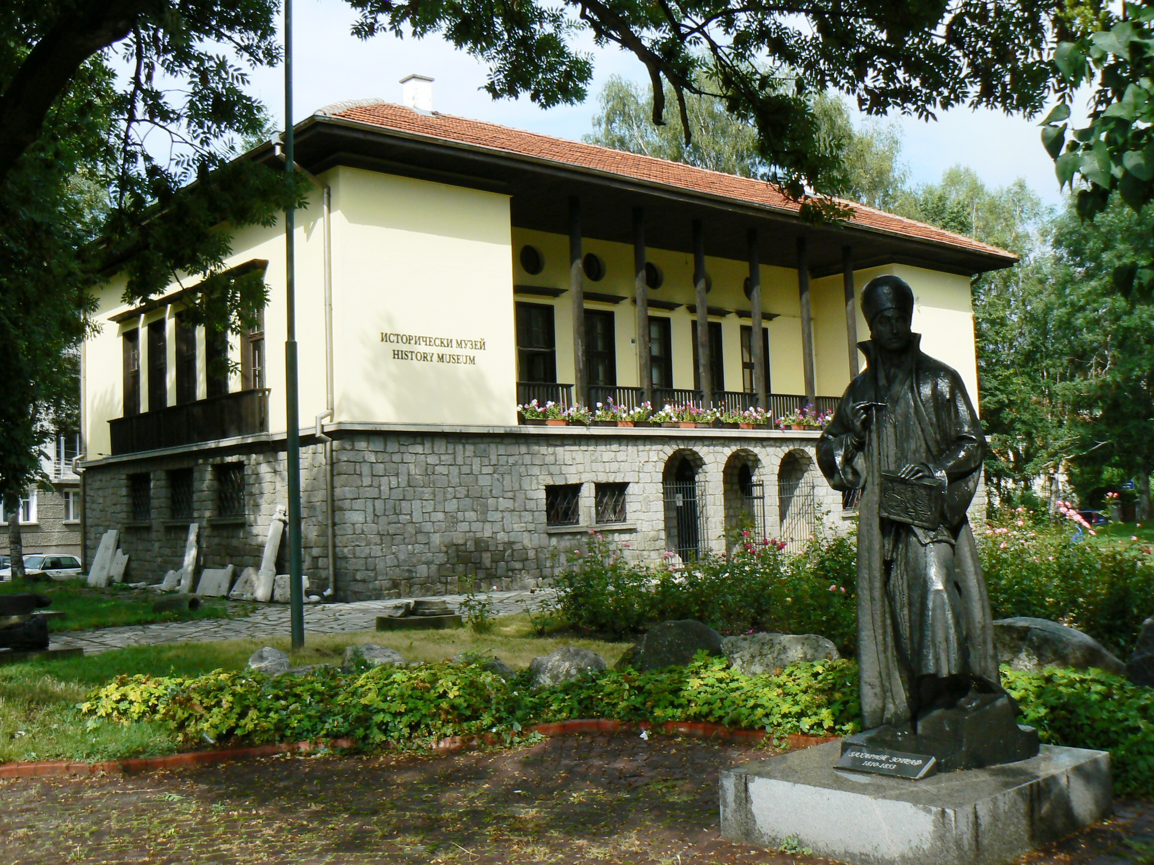 Samokov History Museum and the statue of Zahari Zograf